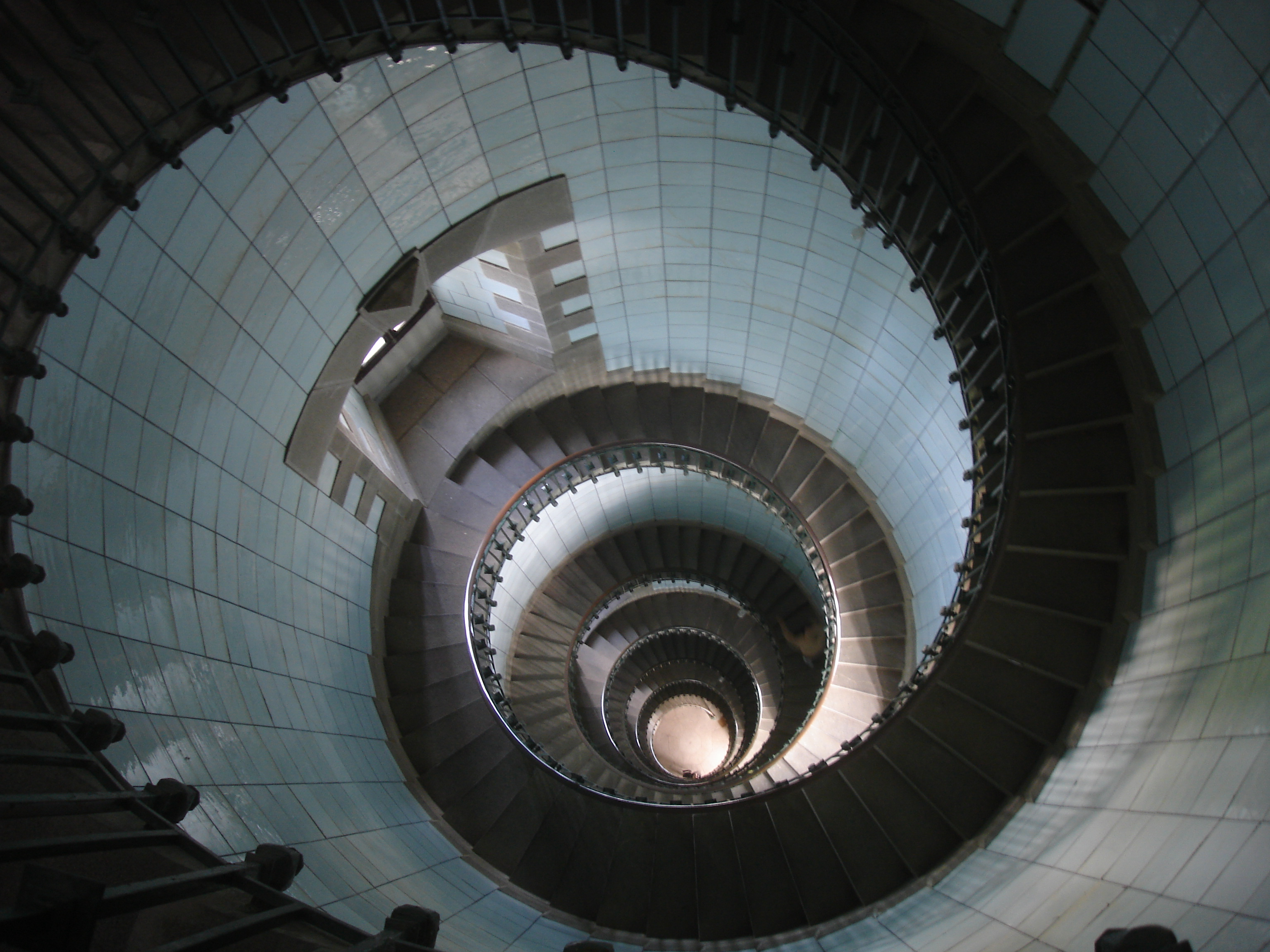 View of the staircase